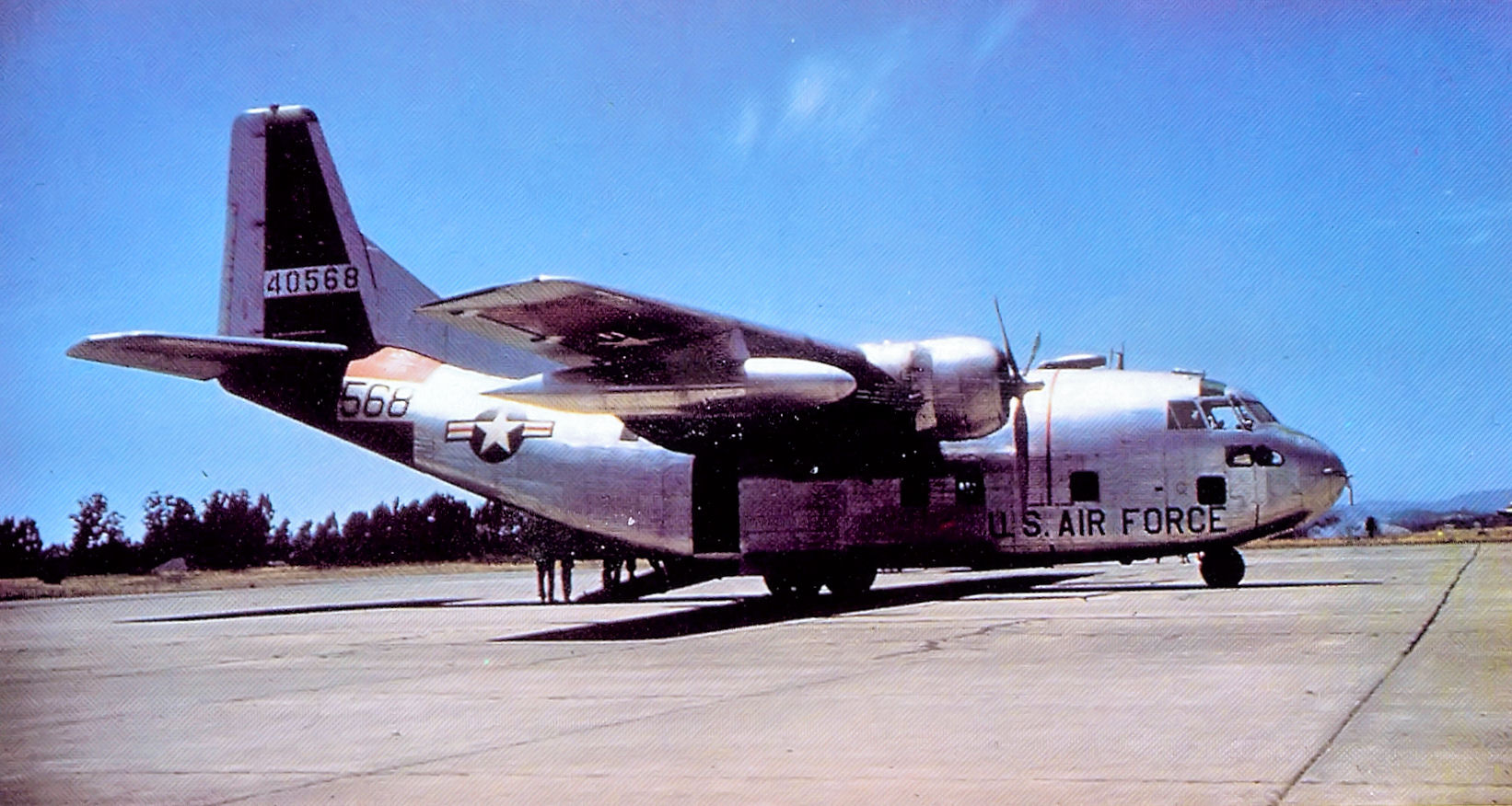 Fairchild C-123B-4-FA Provider 54-568 302d Troop Carrier Wing Clinton County AFB, OH